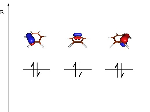 Valence Bond Theory orbital diagram for pi sistem of benzene molecule.